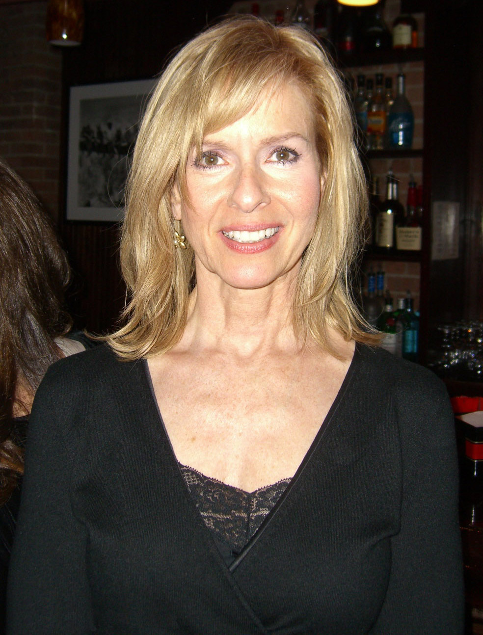 Former American Atheists President Ellen Johnson, at the Great American God-Out in Manhattan, November 15, 2007. This photo was created by Luigi Novi. It is not in the public domain, and use of this file outside of the licensing terms is a copyright violation.